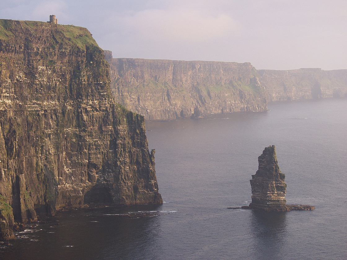 O'Brien's Tower and the Cliffs of Moher, looking south. Danny Burke